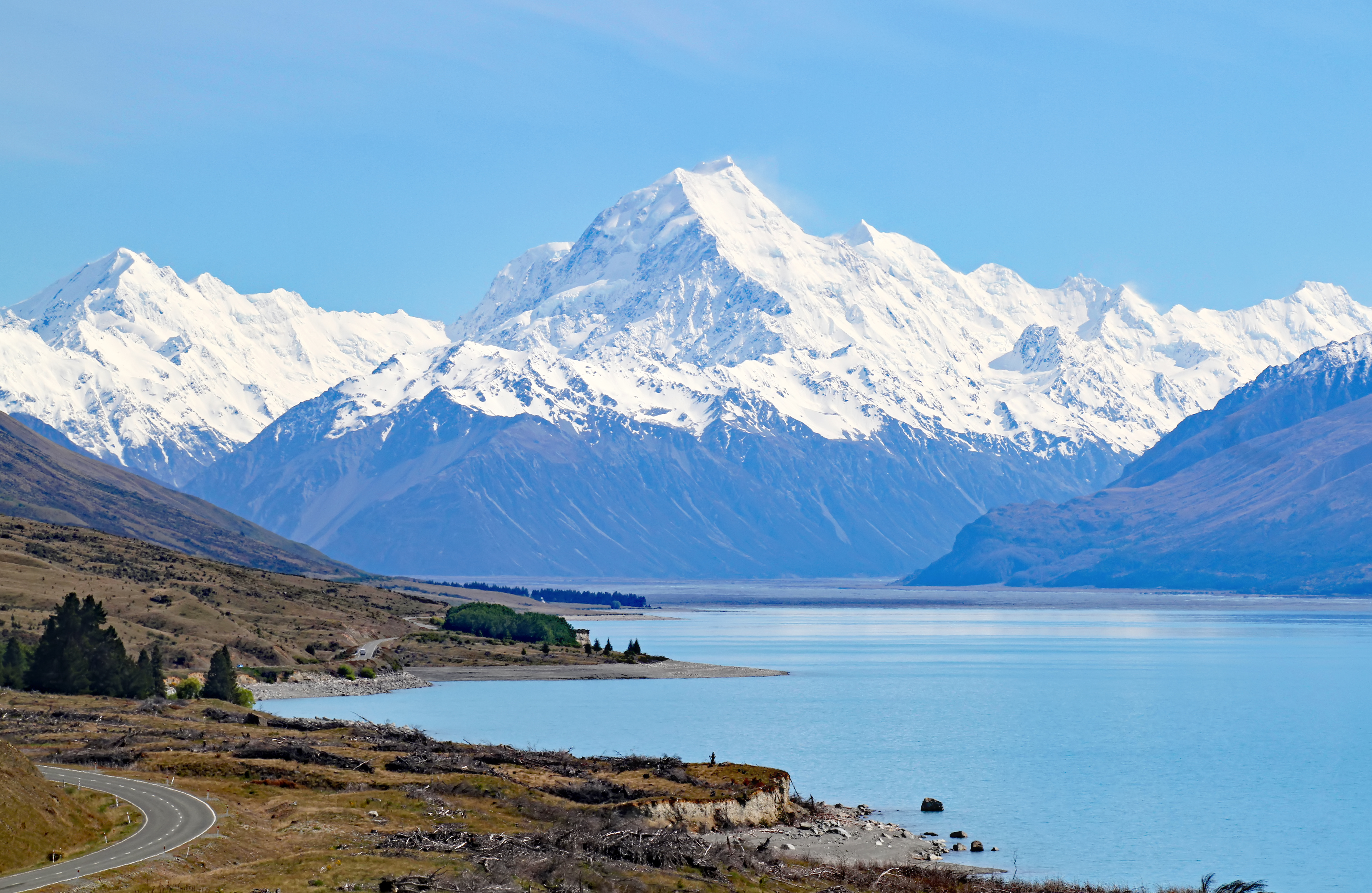 Mount Cook 4